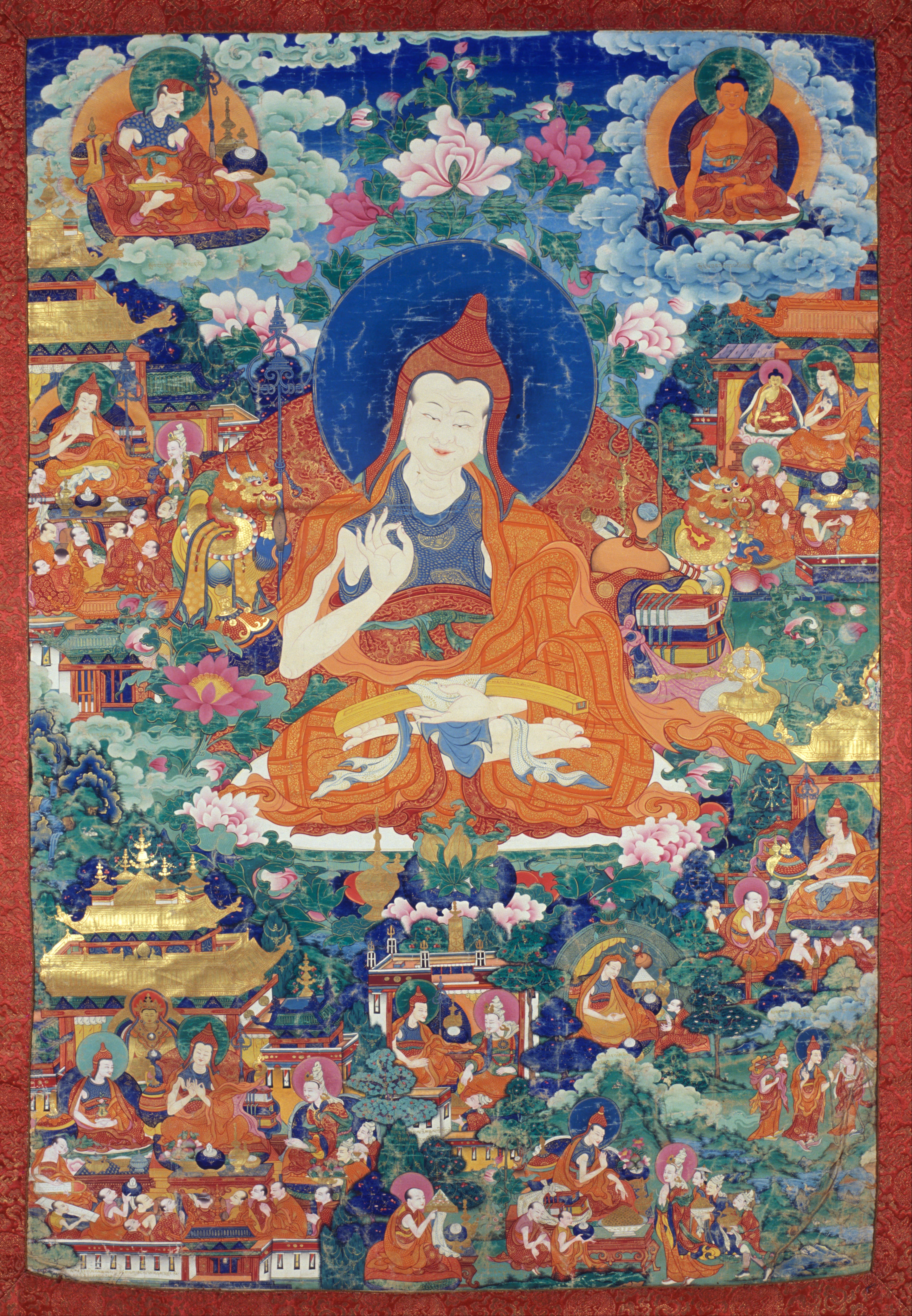 This 19th century painting depicts biographical episodes from the life of the Buddhist monk, Shantarakshita, particularly highlighting his journey to Tibet where he was instrumental in establishing Buddhism. The vignettes are arranged chronologically beginning in the top-right of the painting and proceeding clockwise.